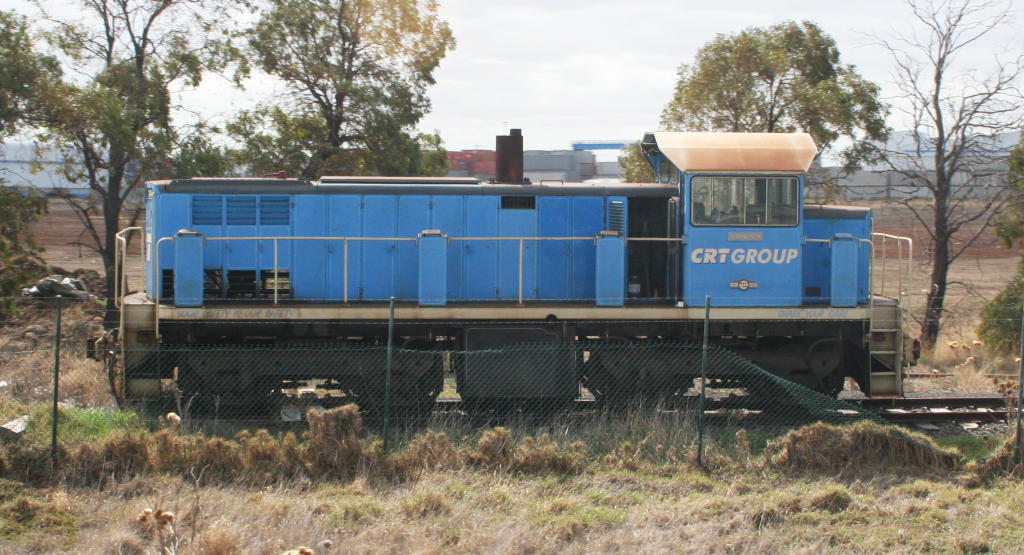 CRT Group New South Wales 73 class locomotive 7334 at Altona, Victoria